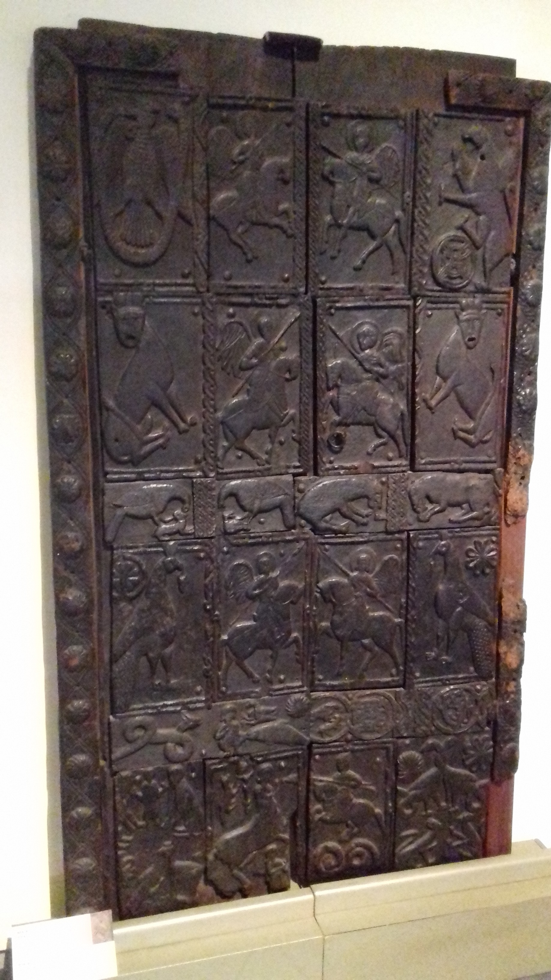 Door from Saint Nikola Bolnichki Church in Ohrid, 14 Century, National History Museum, Bulgaria. Bas-relief, 175 x 88 cm